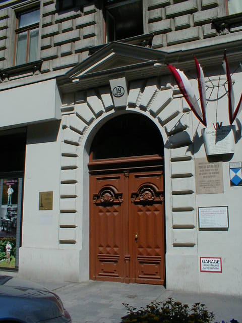 Front door of the house of Sigmund Freud in Vienna, Austria